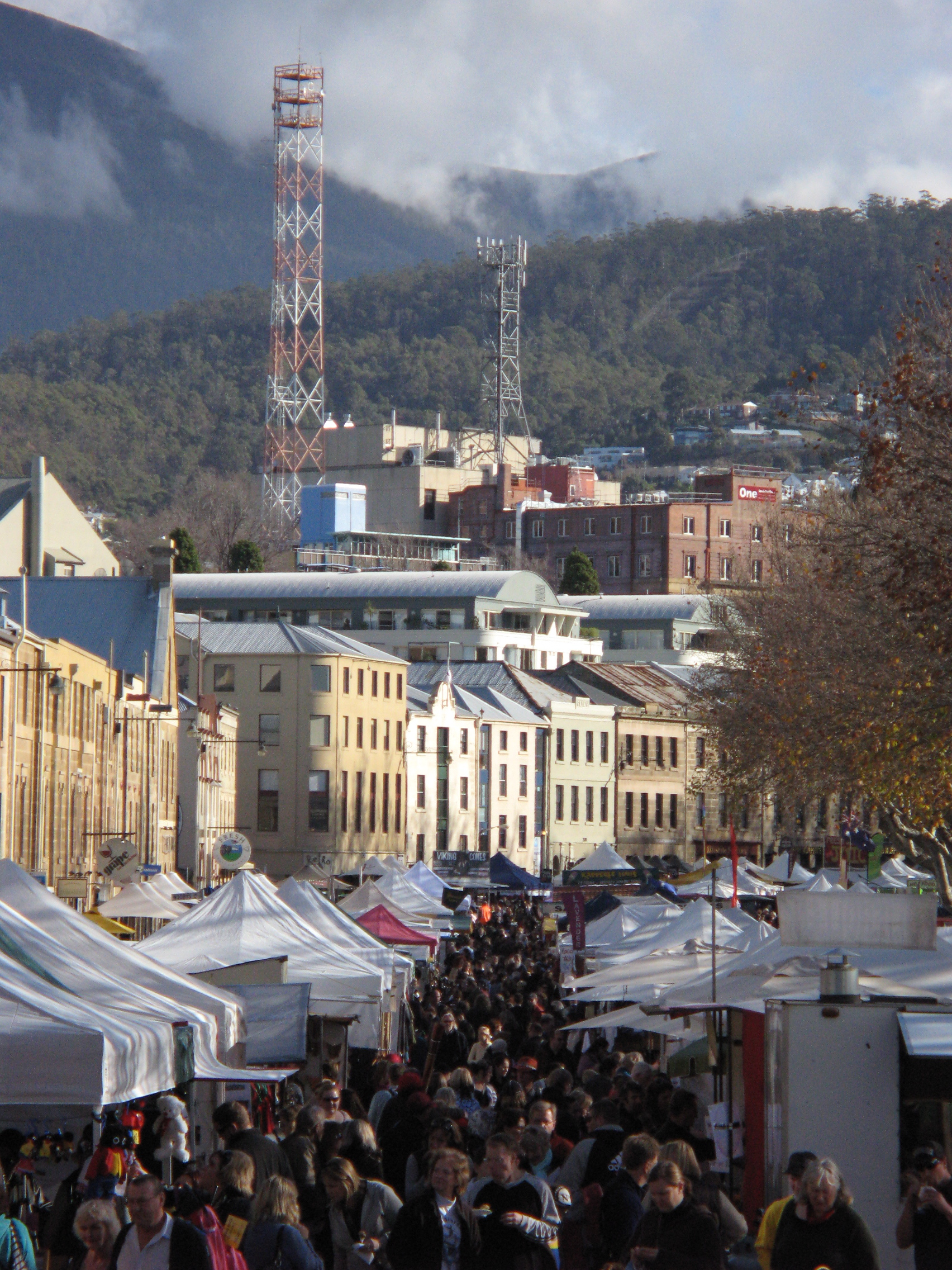 Salamanca Market, looking north towards Mt. Wellington. Photo taken by Nick carson in May 2008.